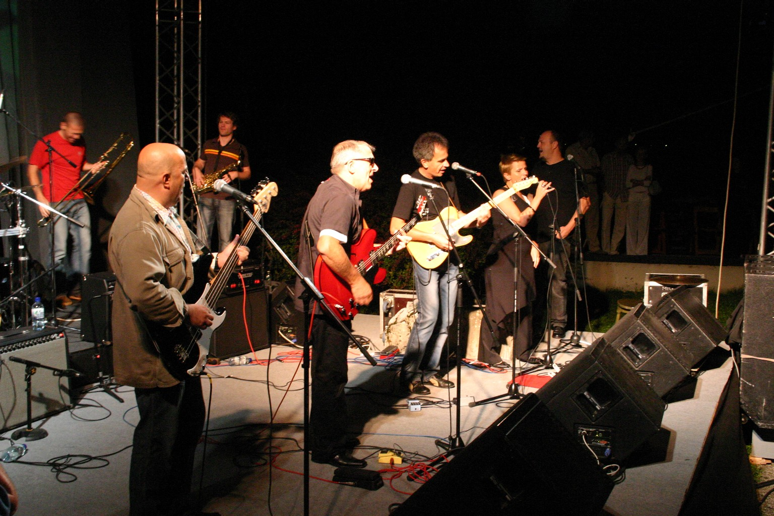 A concert by Rudolfovo, a rock band from Novo mesto, Slovenia